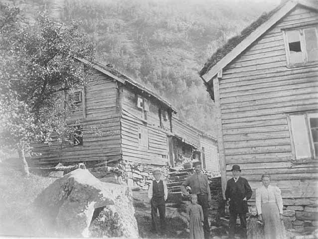 Photograph of Knute Nelson (second from the right) upon returning to his birthplace of Voss, Norway. Photographer: Edmonston Photograph Collection 1898-1899. Location no. por 4147 p3 Negative no. 83343